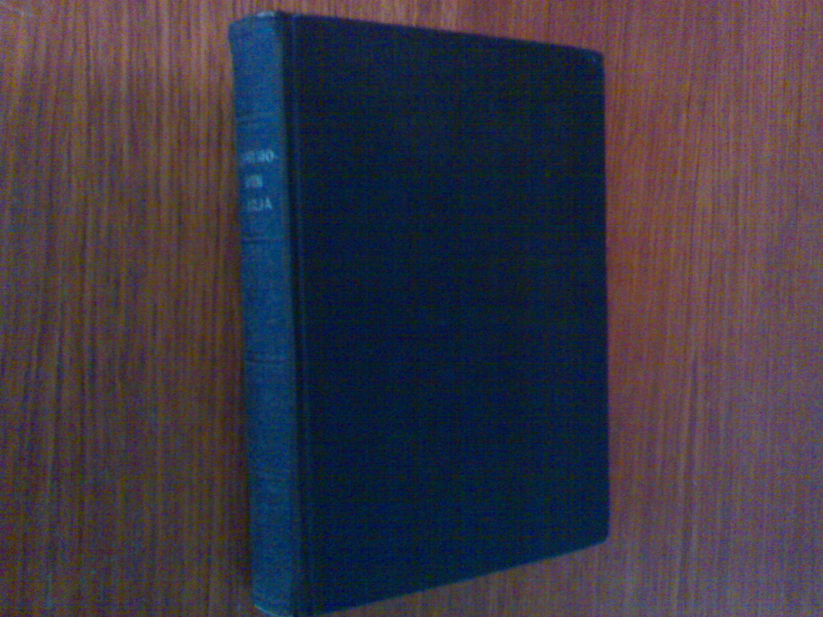 First Finnish language edition of the Book of Mormon from 1954, published by The Church of Jesus Christ of Latter-day Saints (see List of Book of Mormon translations).